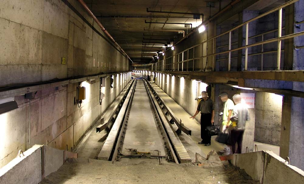 Montréal Métro Beaugrand garage test track sandpile bumper post showing rubber-tyred metro track section with people indicating scale.